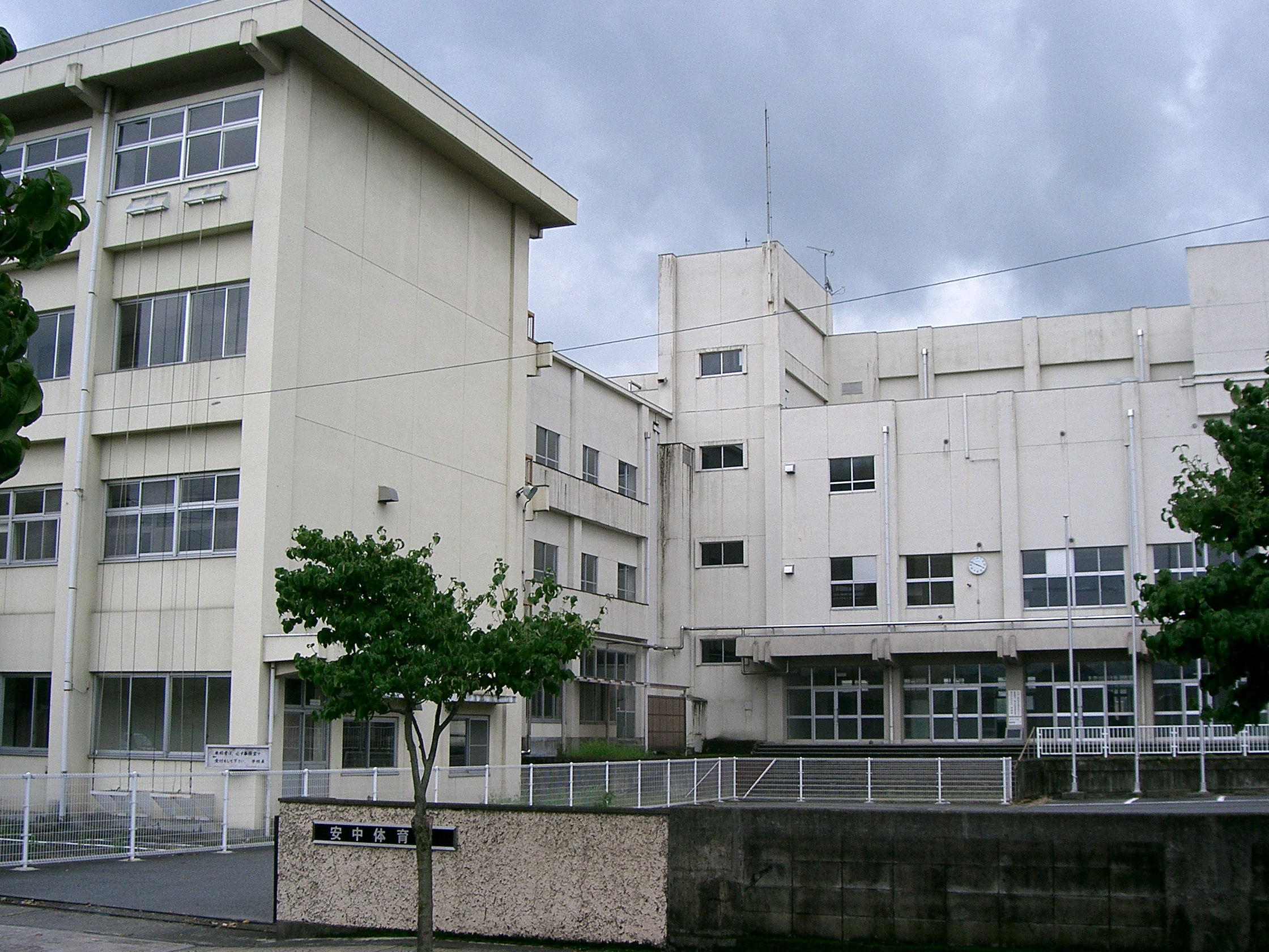 Annaka Gymnasium, former Gunma Prefectural Annaka High School.